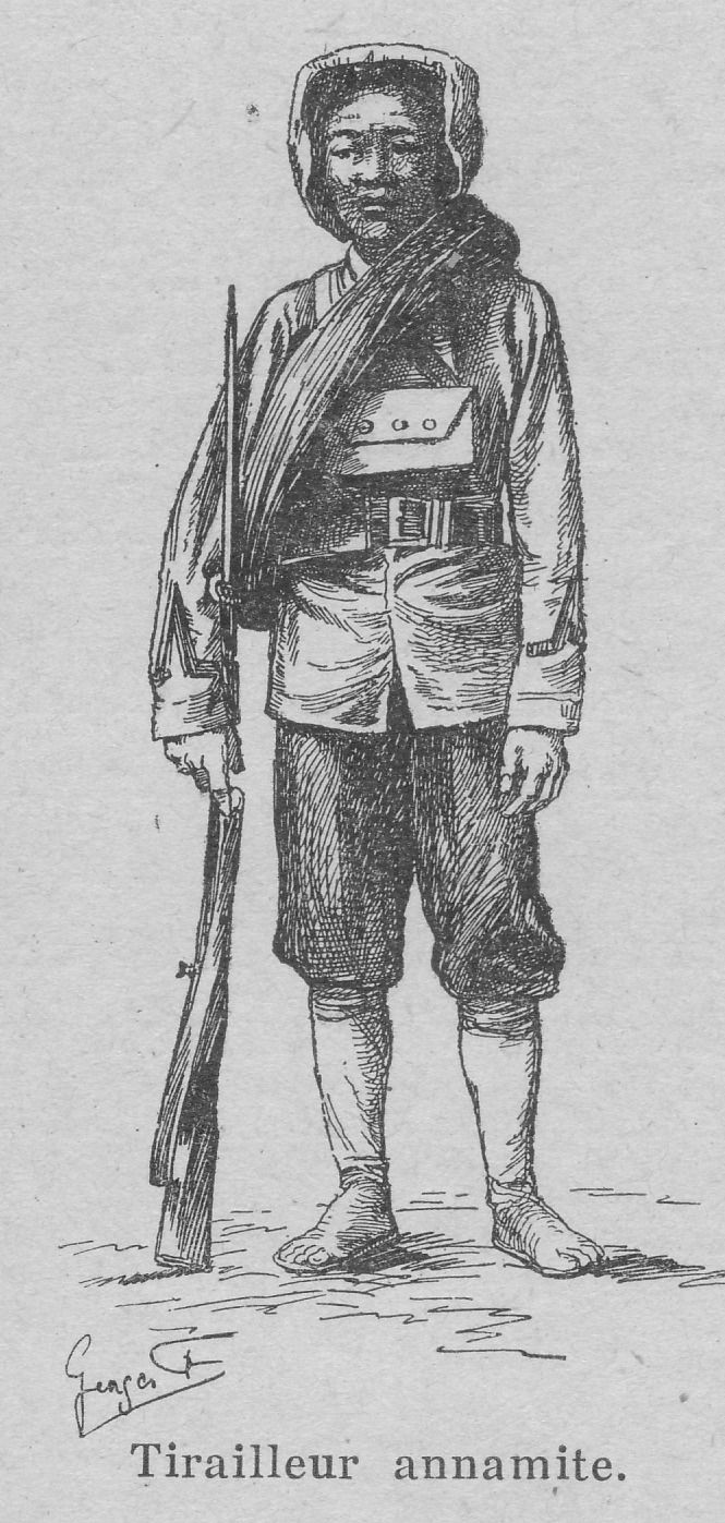 French Indochina colonial troop